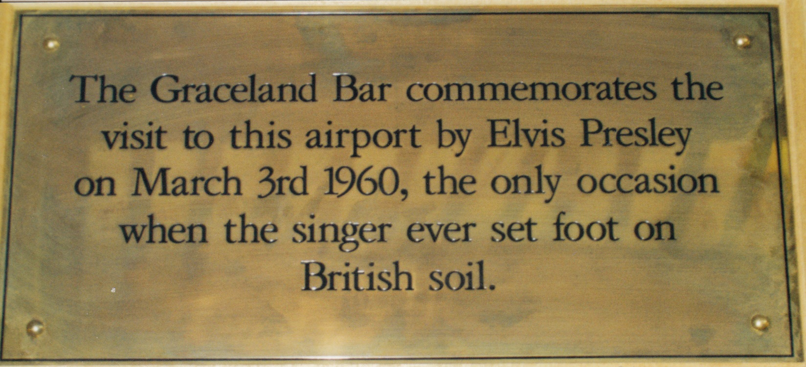 Plaque recording the only occasion when Elvis Presley set foot in Britain en route from Germany to the U.S. in 1960. At that time Prestwick was a refuelling stop for all trans-Atlantic flights between Europe and North America.